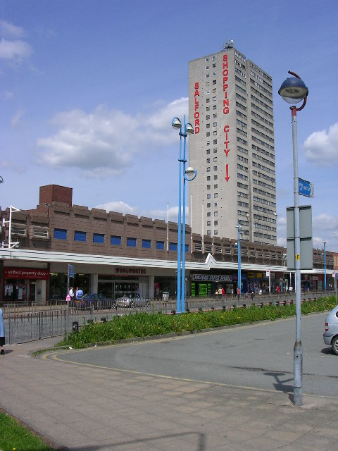 Pendleton Shopping Centre in Salford, Greater Manchester, England. Opened in the early 1970's following slum clearances of the late 1960's.